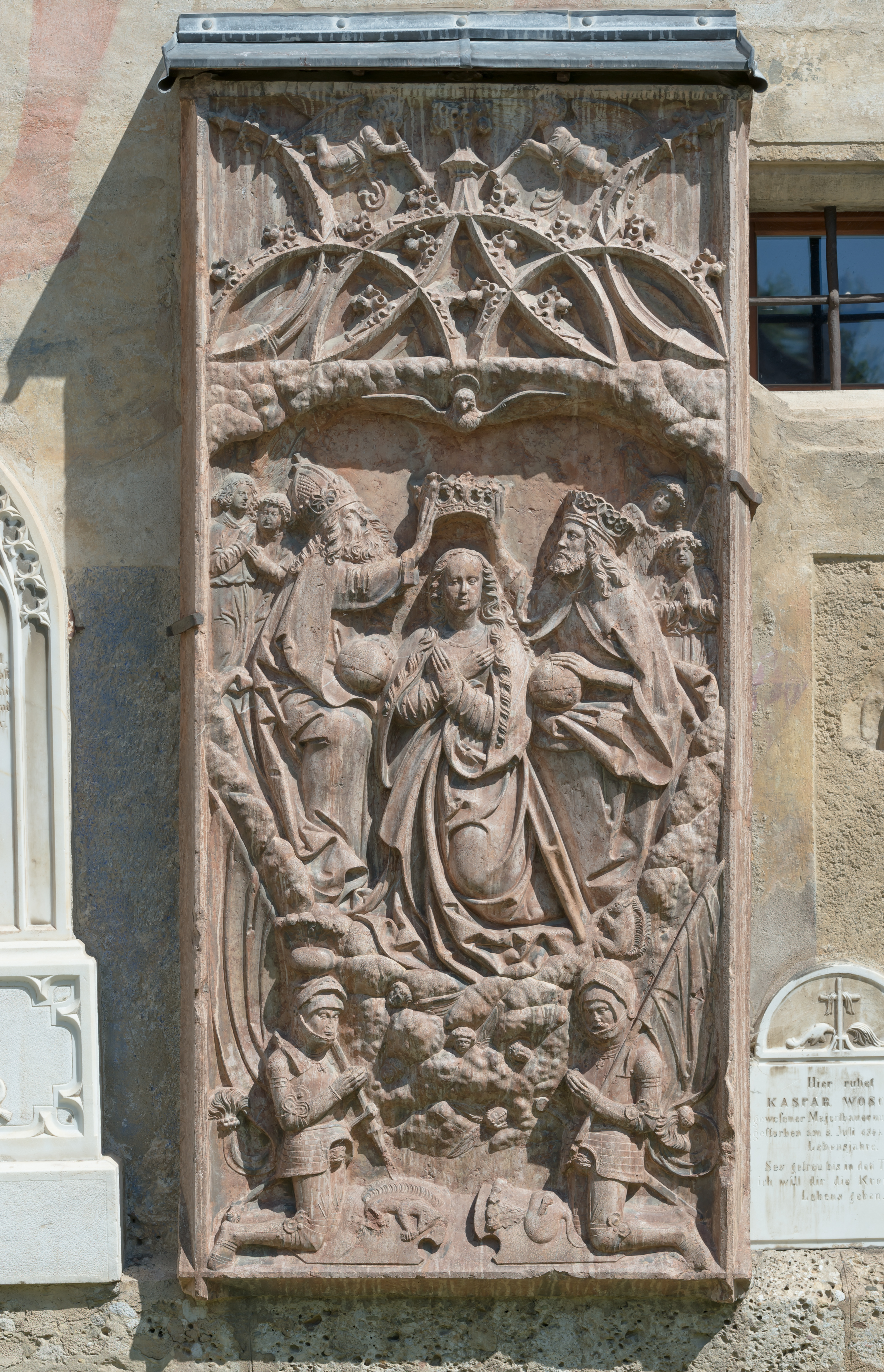 Marble church monument («Keutschacher epitaph») with the coronation of Mary (donation by archbishop Leonard of Keutschach) at the southern exterior wall of the parish church Assumption of Mary on Domplatz, market town Maria Saal, district Klagenfurt Land, Carinthia, Austria, EU